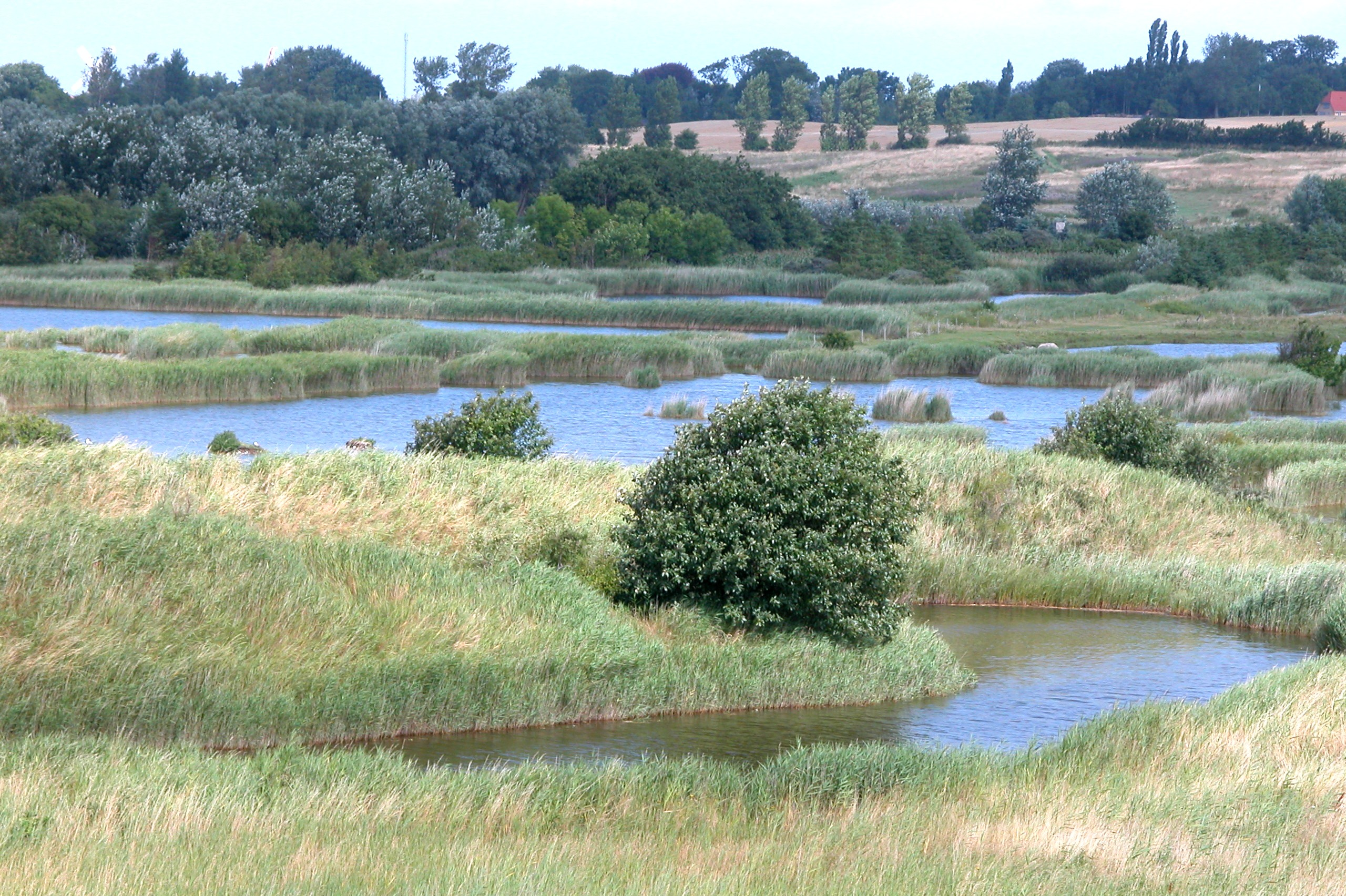 Vitsø Nor, Ærø, Denmark